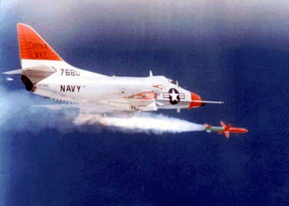 Navy photo of AGM-45 Shrike anti-radiation missile being fired from an Douglas A-4C Skyhawk (BuNo. 147680), piloted by pilot Lt. Tambini of the Naval Weapons Center China Lake at the Pacific Missile Test Center at Point Mugu (California, USA), 12 June 1964.